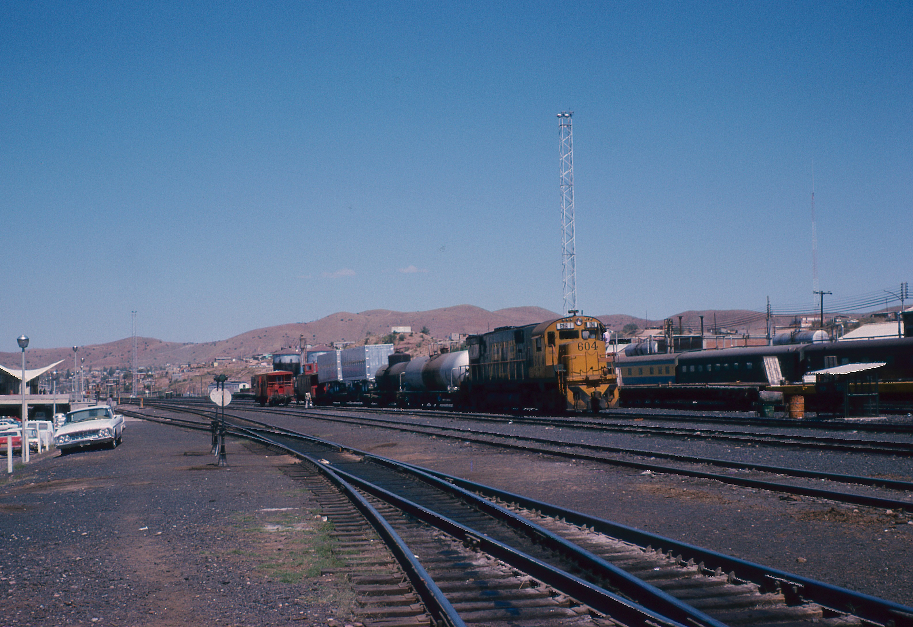 Nogales, December 1975.